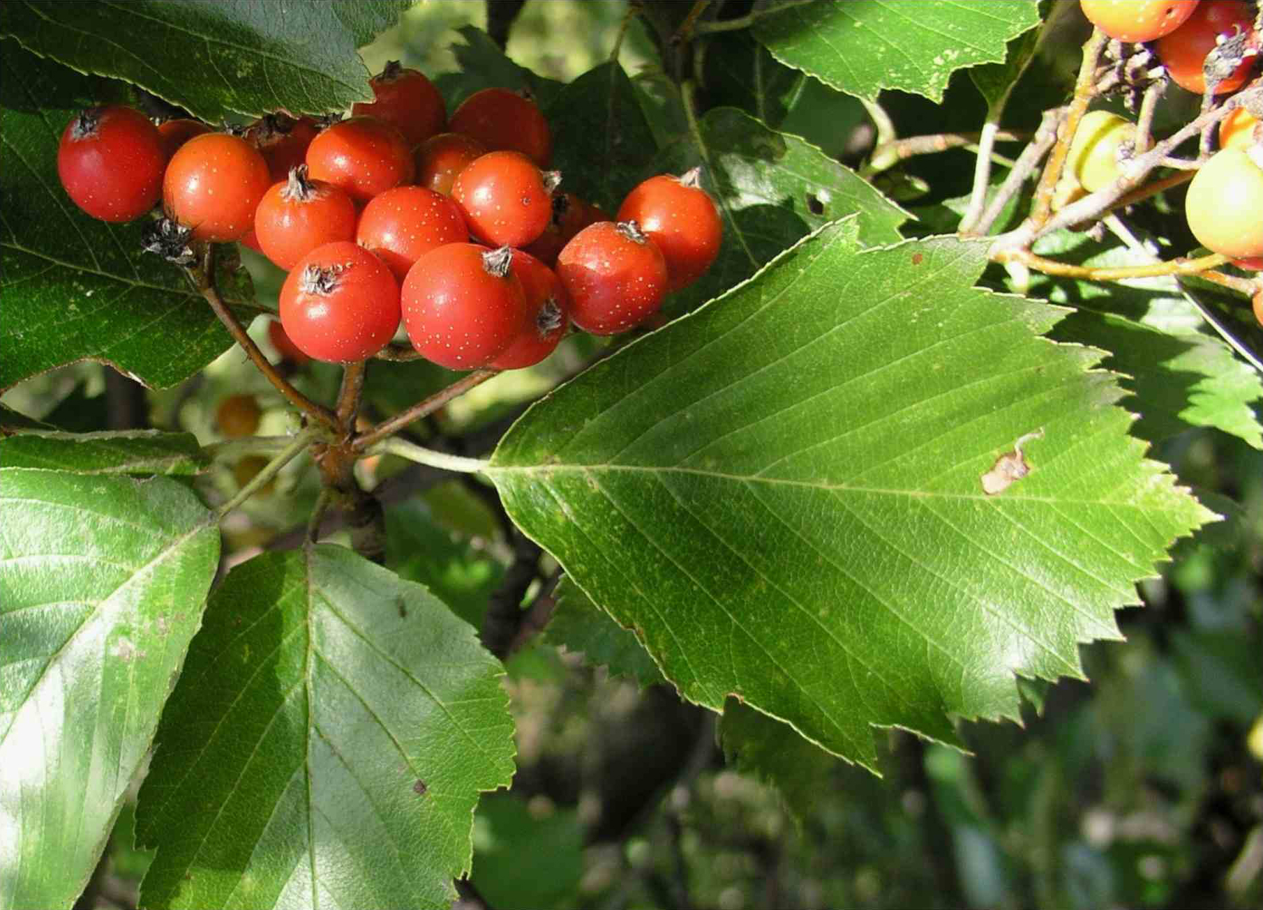 Karpatiosorbus milensis - fruiting individual at the type locality 50°26'02.88" N, 13°45'30.30" E